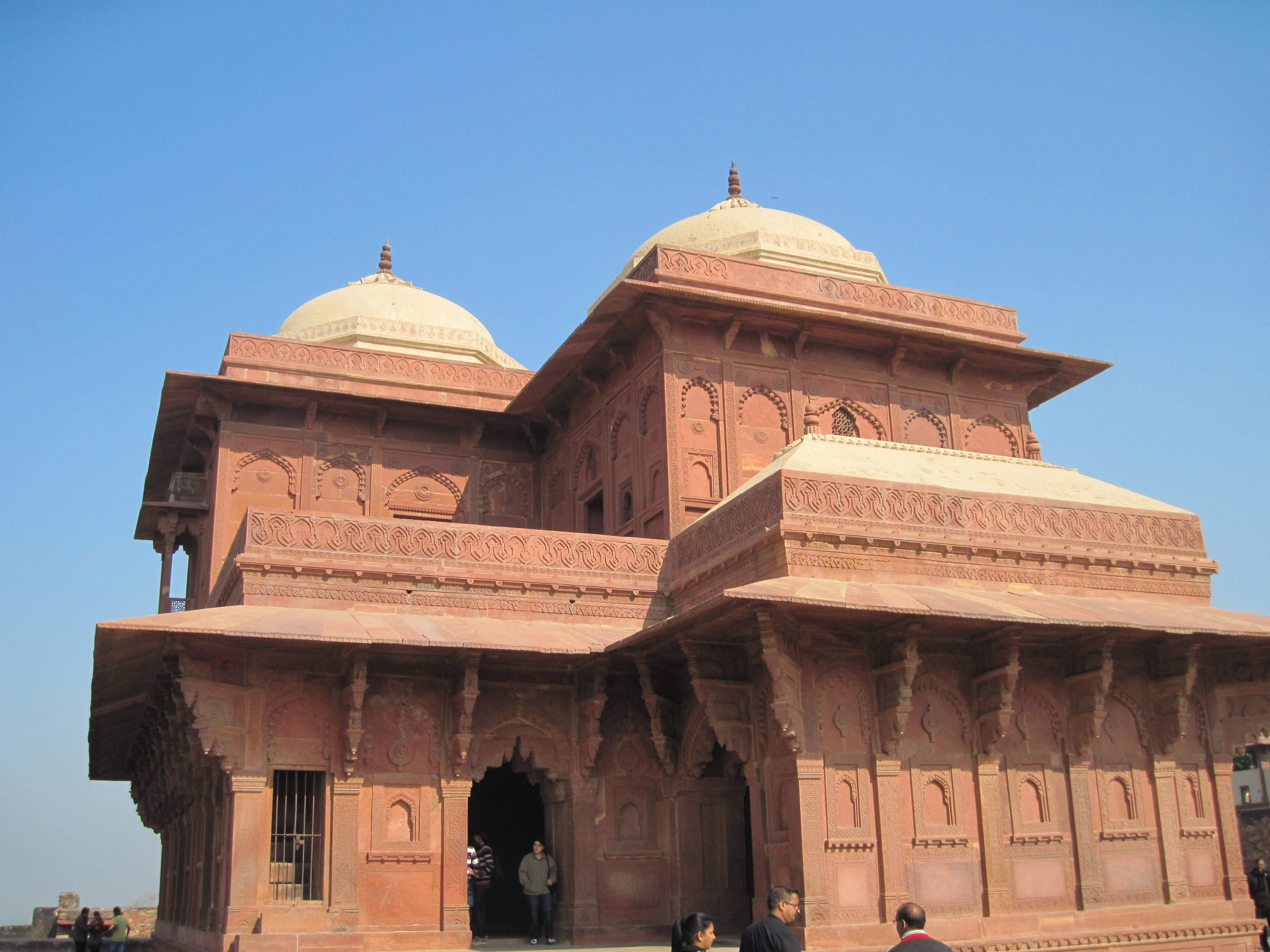 Raja Birbal's Palace,aja Birbal was Akbar's Hindu Prime Minister, N-UP-A45-a.